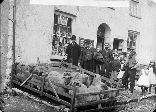 1 negative : glass, dry plate, b&w ; 12 x 16.5 cm.